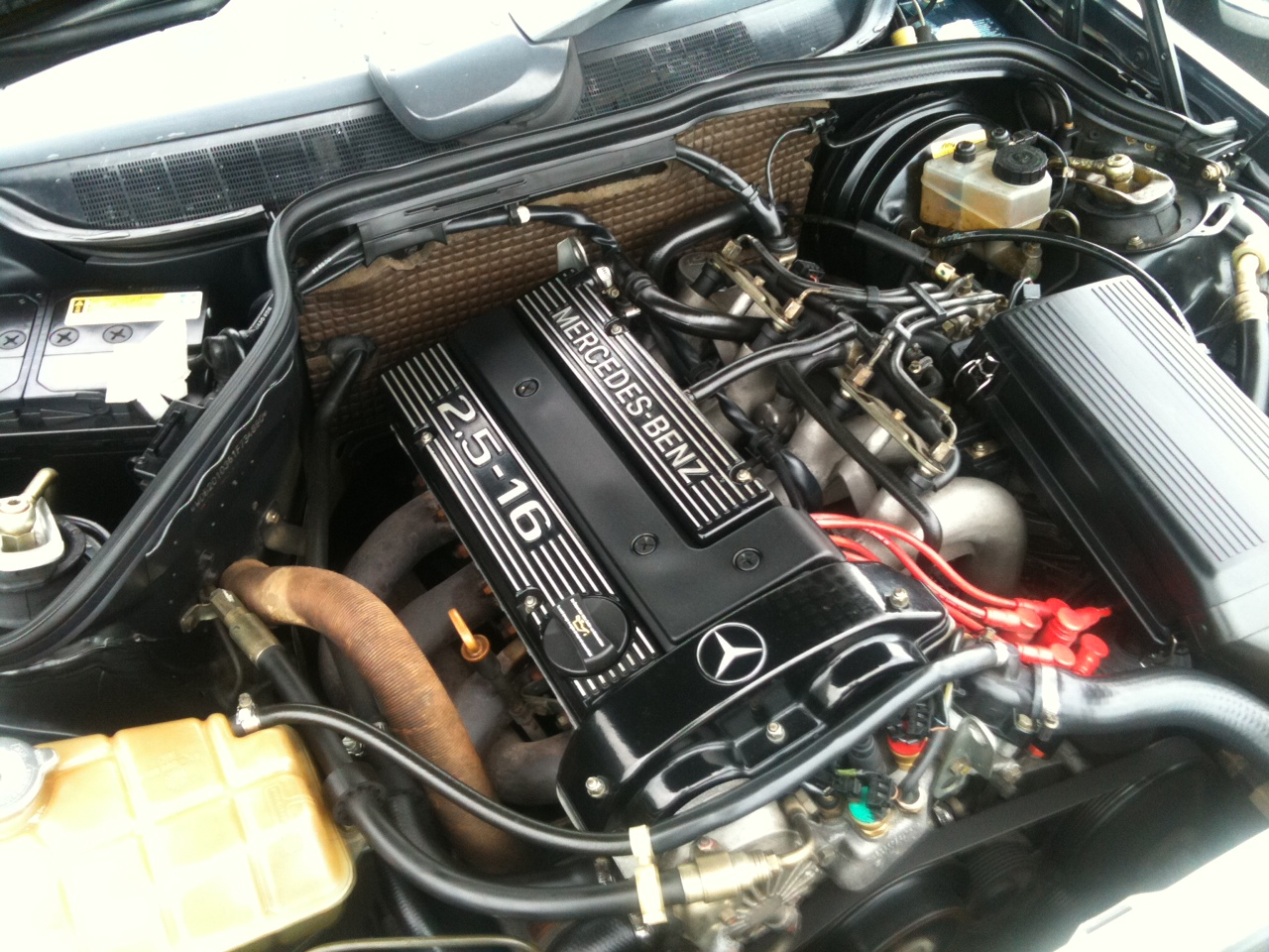 Engine Mercedes-Benz 190E 2.5-16 Evolution II